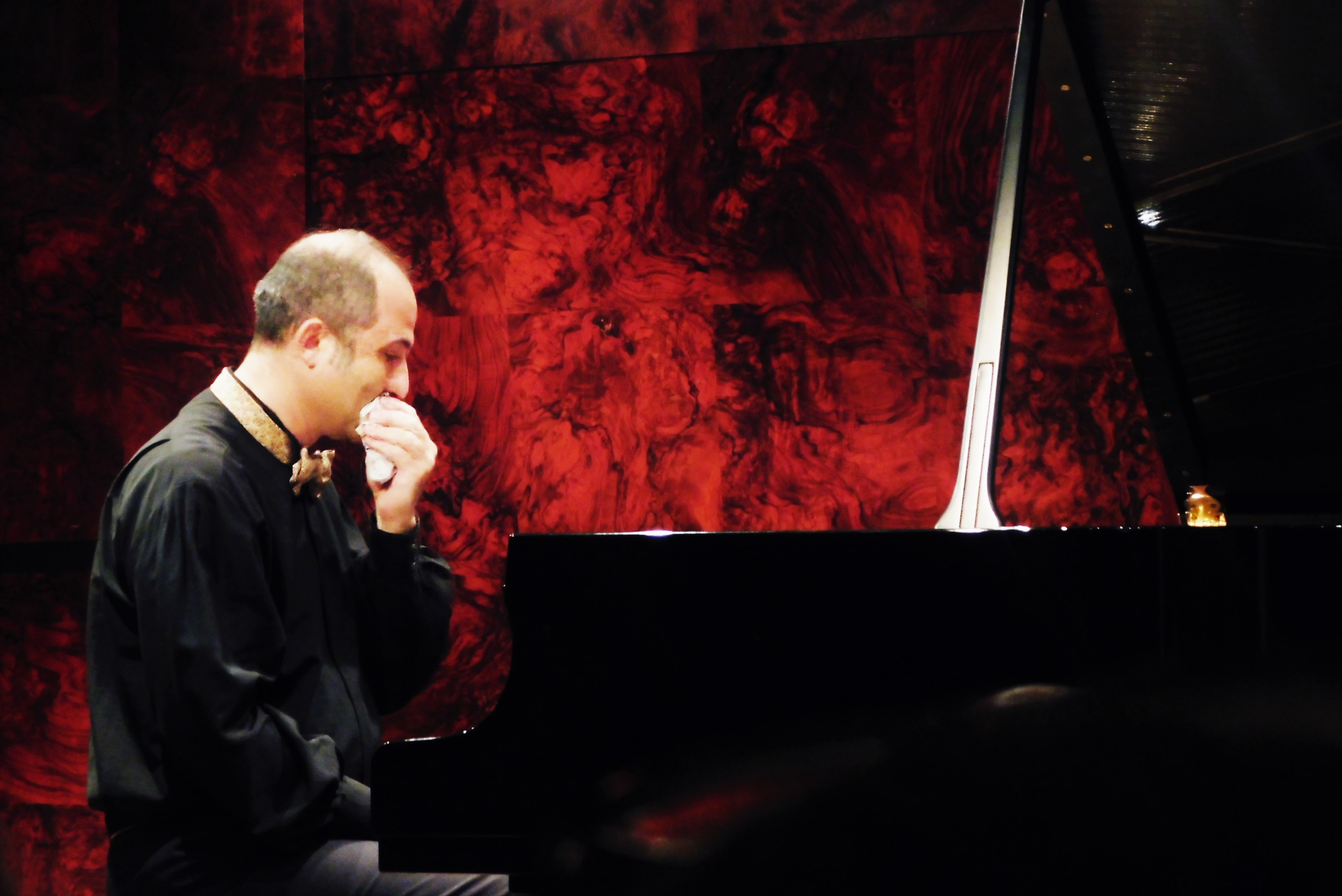 Aris Graikousis Greek pianist performs Fr.Chopin at Theocharaki Foundation November 2019